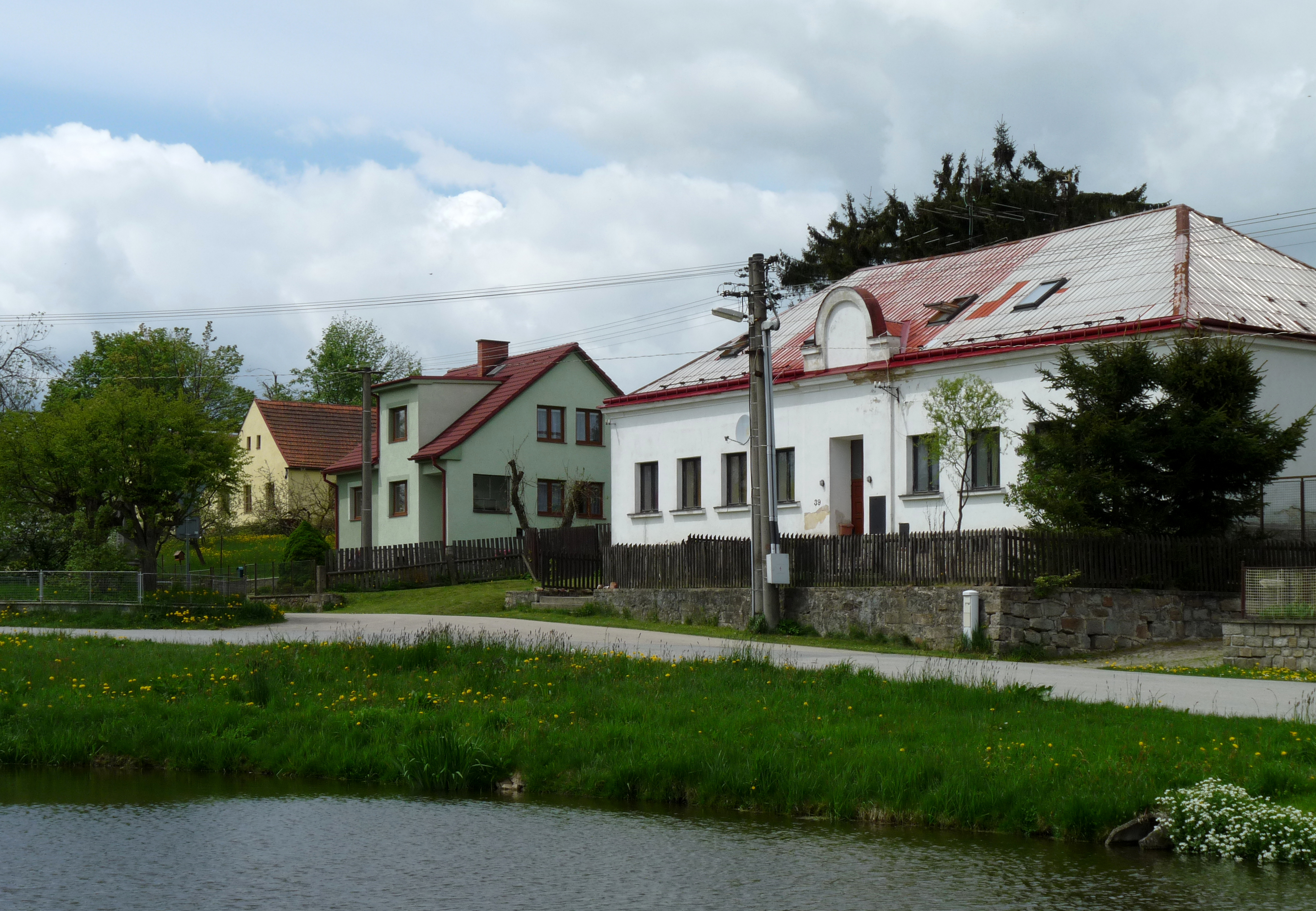 House No 39 in the village of Horní Bolíkov, Jindřichův Hradec District, South Bohemian Region, Czech Republic, part of Studená.